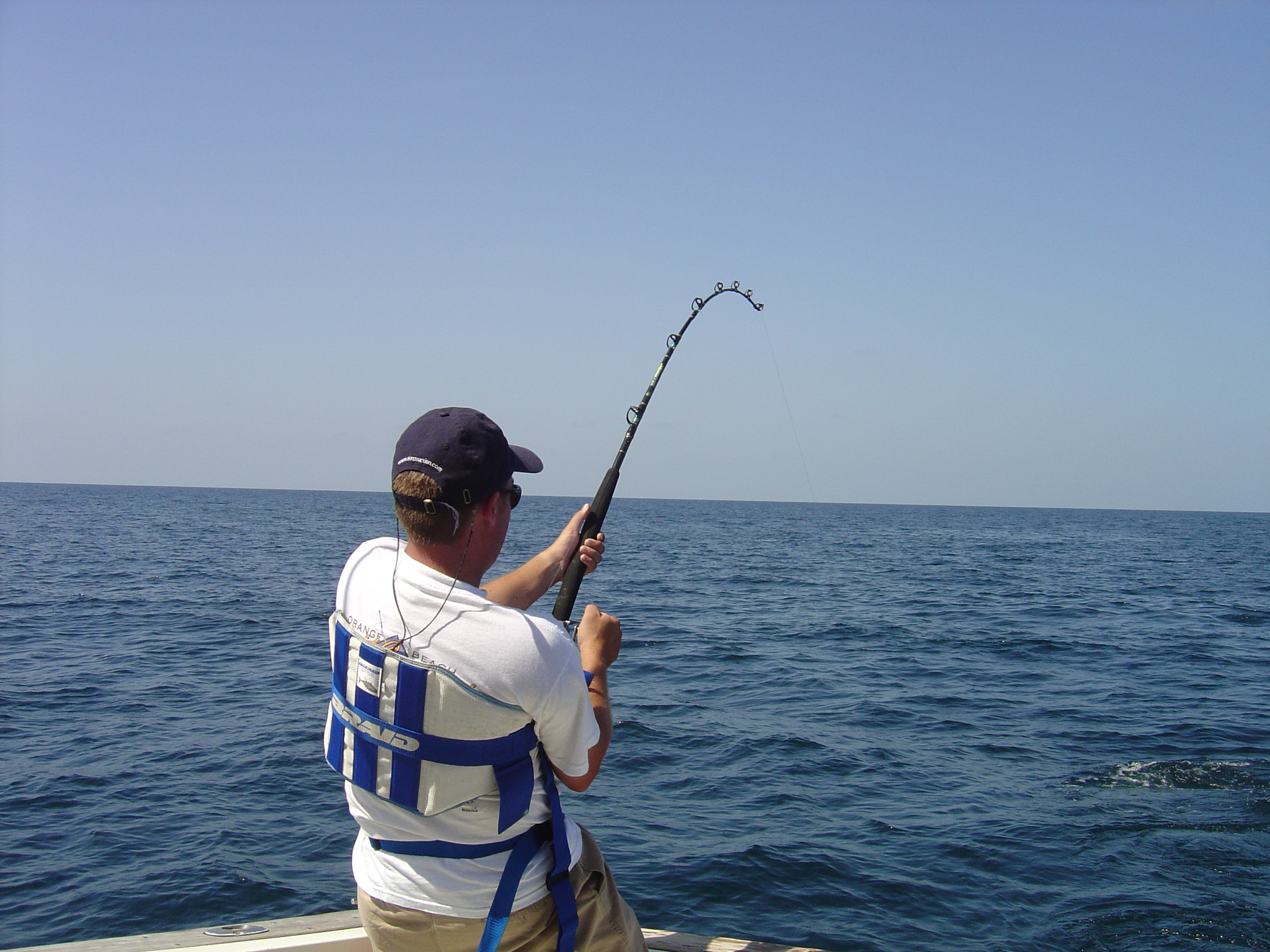 Deep sea fishing in the Gulf of Mexico (2004).